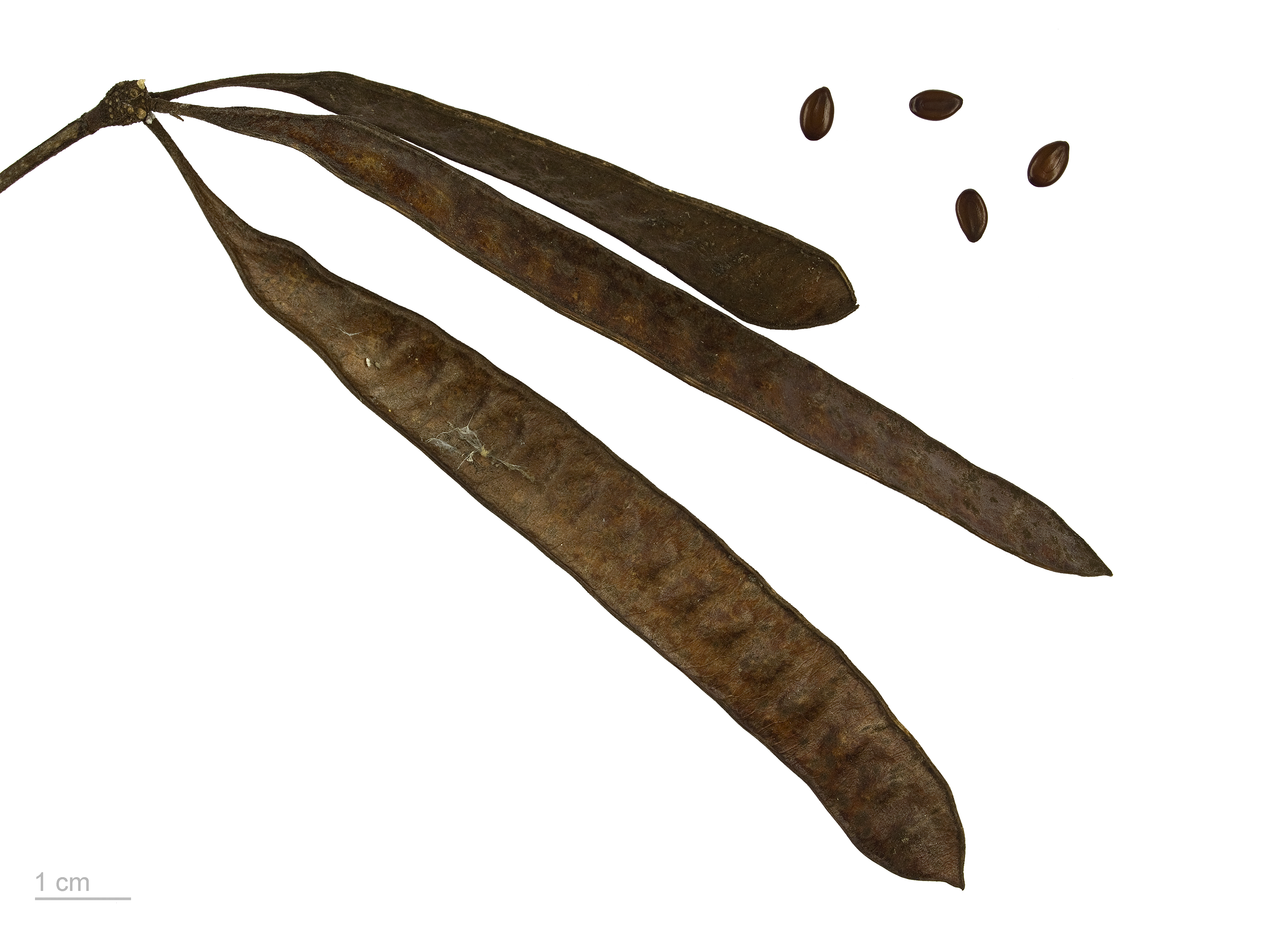 Leucaena leucocephala , fruits and seeds